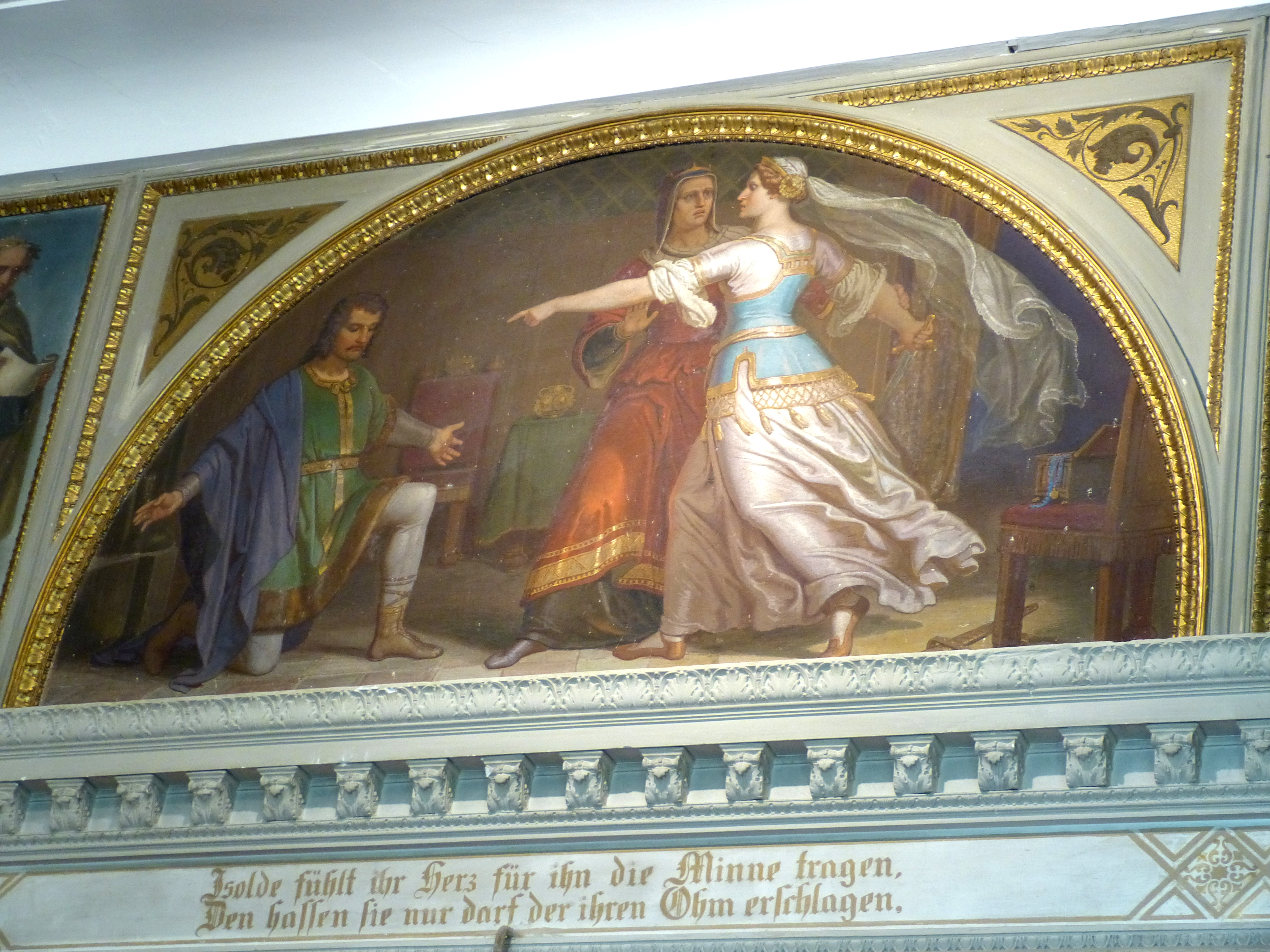 Schwerin Castle ( Mecklenburg ). Legend room ( 1851 ): Isolde falls in love with Tristan